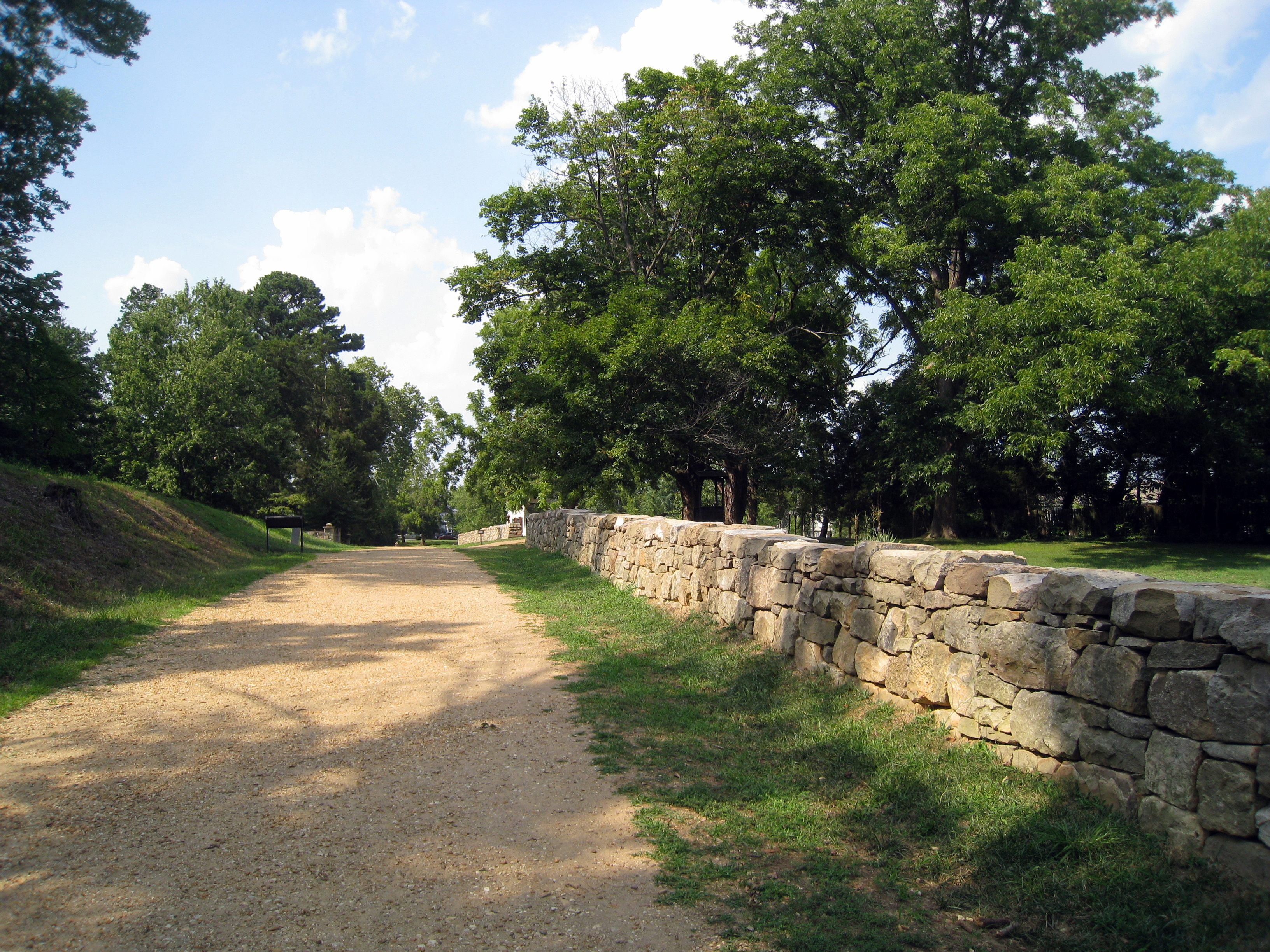 A section of the Sunken Road and adjacent stone wall (restored in 2004) in the Fredericksburg and Spotsylvania National Military Park. August 2010.